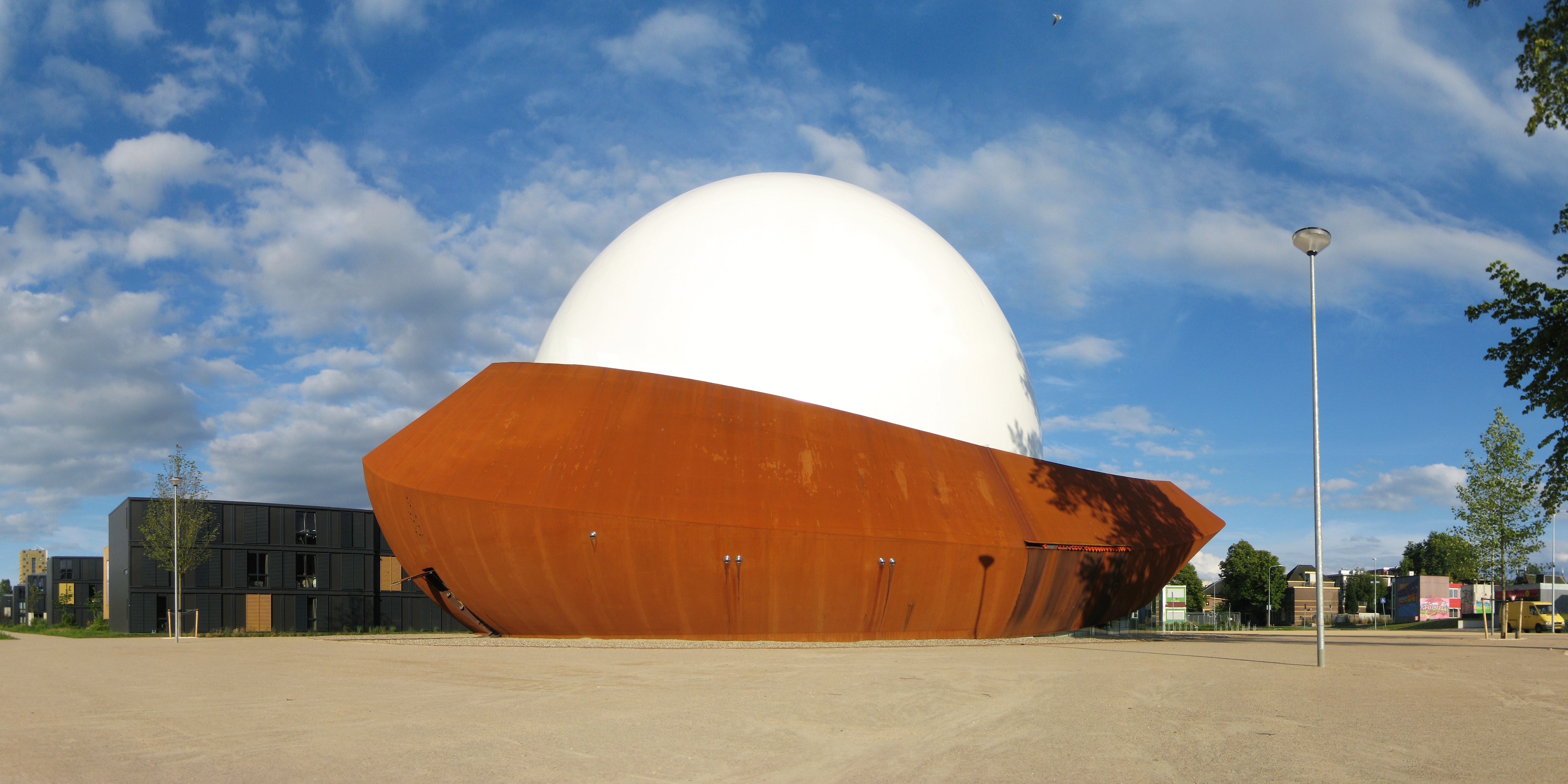 The Infoversum, a full dome cinema (b. 2013-2014) in the Dutch city of Groningen.